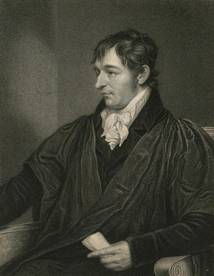 A portrait from the Welsh Portrait Collection at the National Library of Wales. Depicted person: Richard Porson – British classical scholar